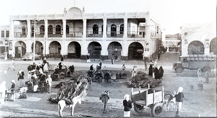 The Manama municipality building, between 1930-1950.